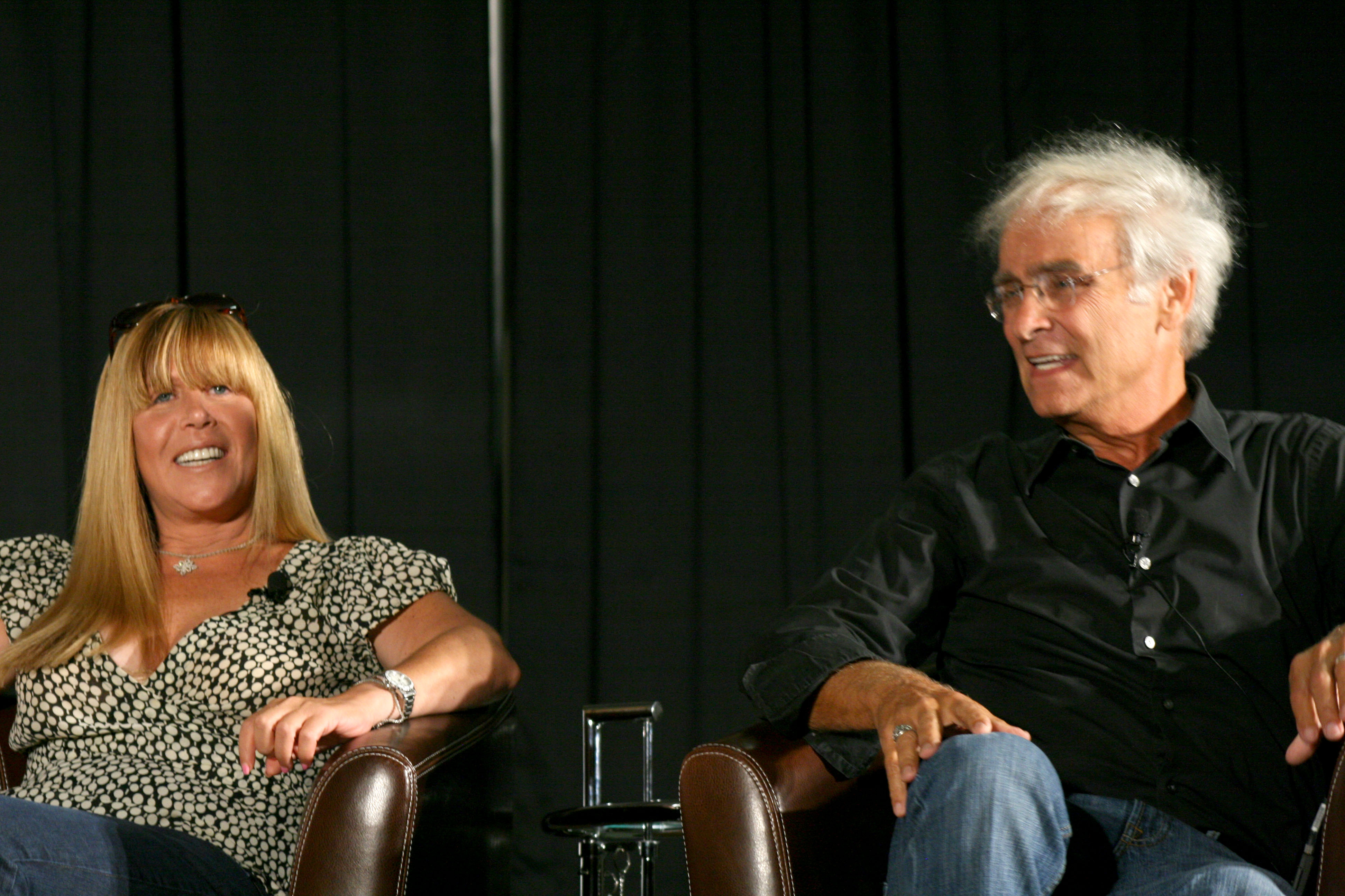 Talk radio hosts Randi Rhodes and Mike Malloy at a "We the People" event hosted by KPTK